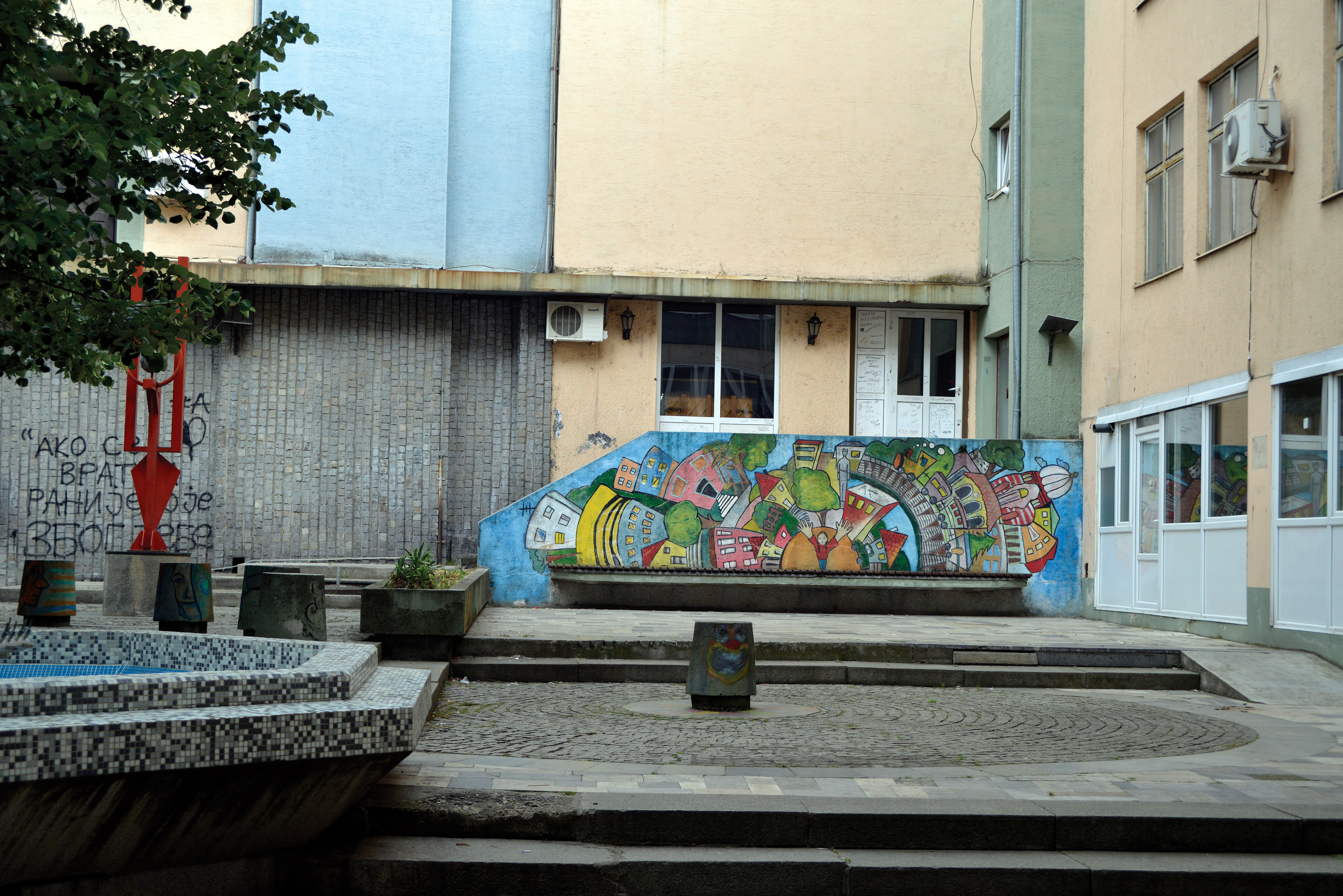 Yard in front of the library "Despot Stefan Lazarević" in Mladenovac, decorated with murals